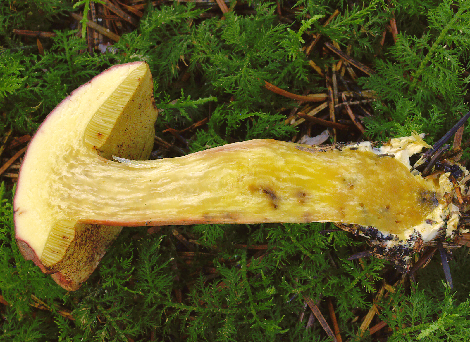 Matt Bolete (Xerocomellus pruinatus)